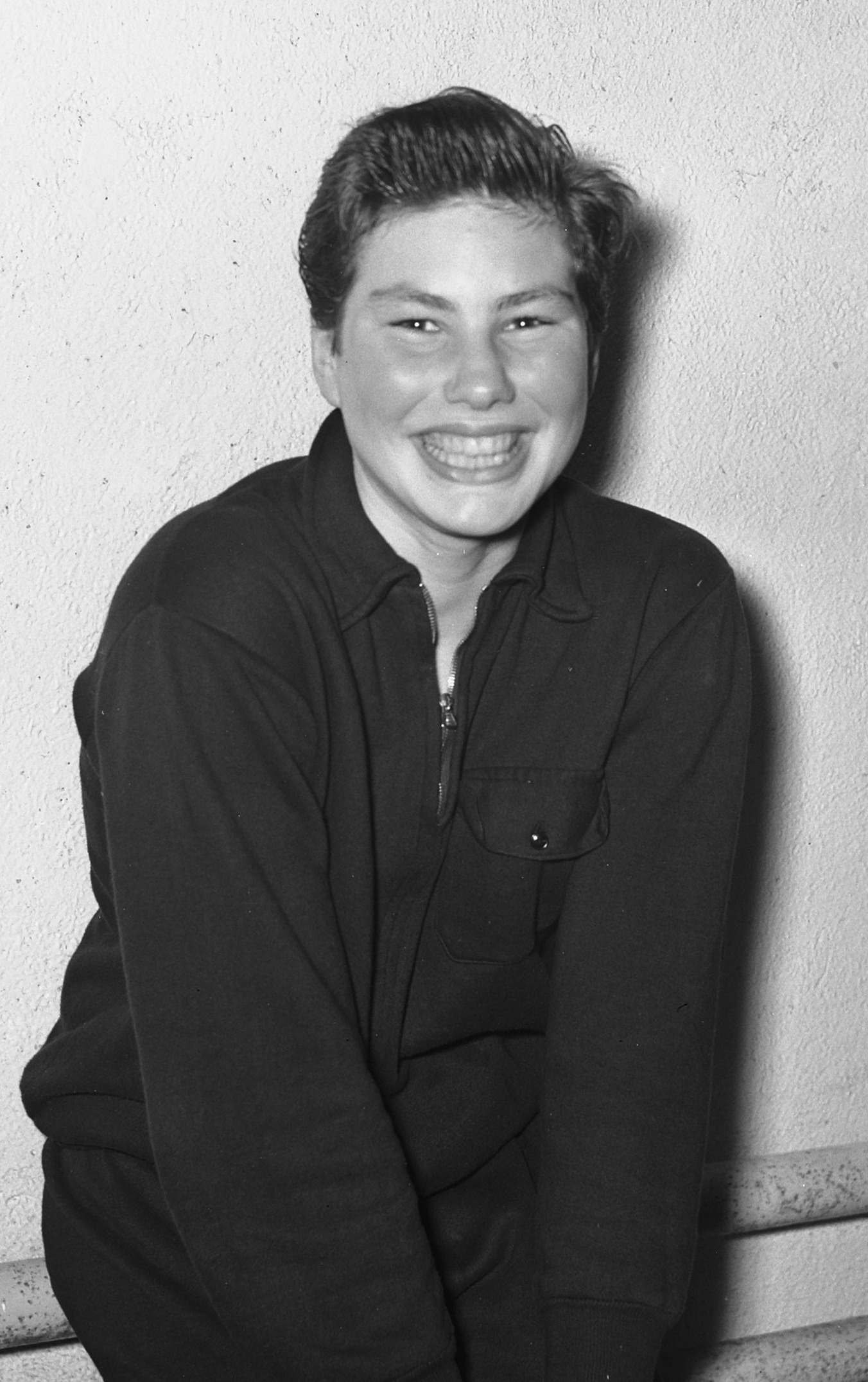 Ada den Haan